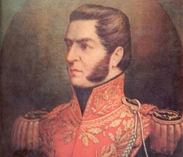 Painting of Francisco "Pancho" Ramírez, founding father of the argentine province of Entre Ríos, kept in the local house of goverment